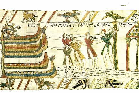 Bayeux Tapestry. Scene 36